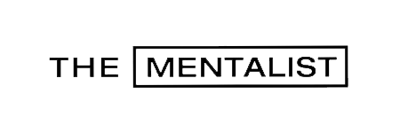 Logo for the CBS television show The Mentalists first season.